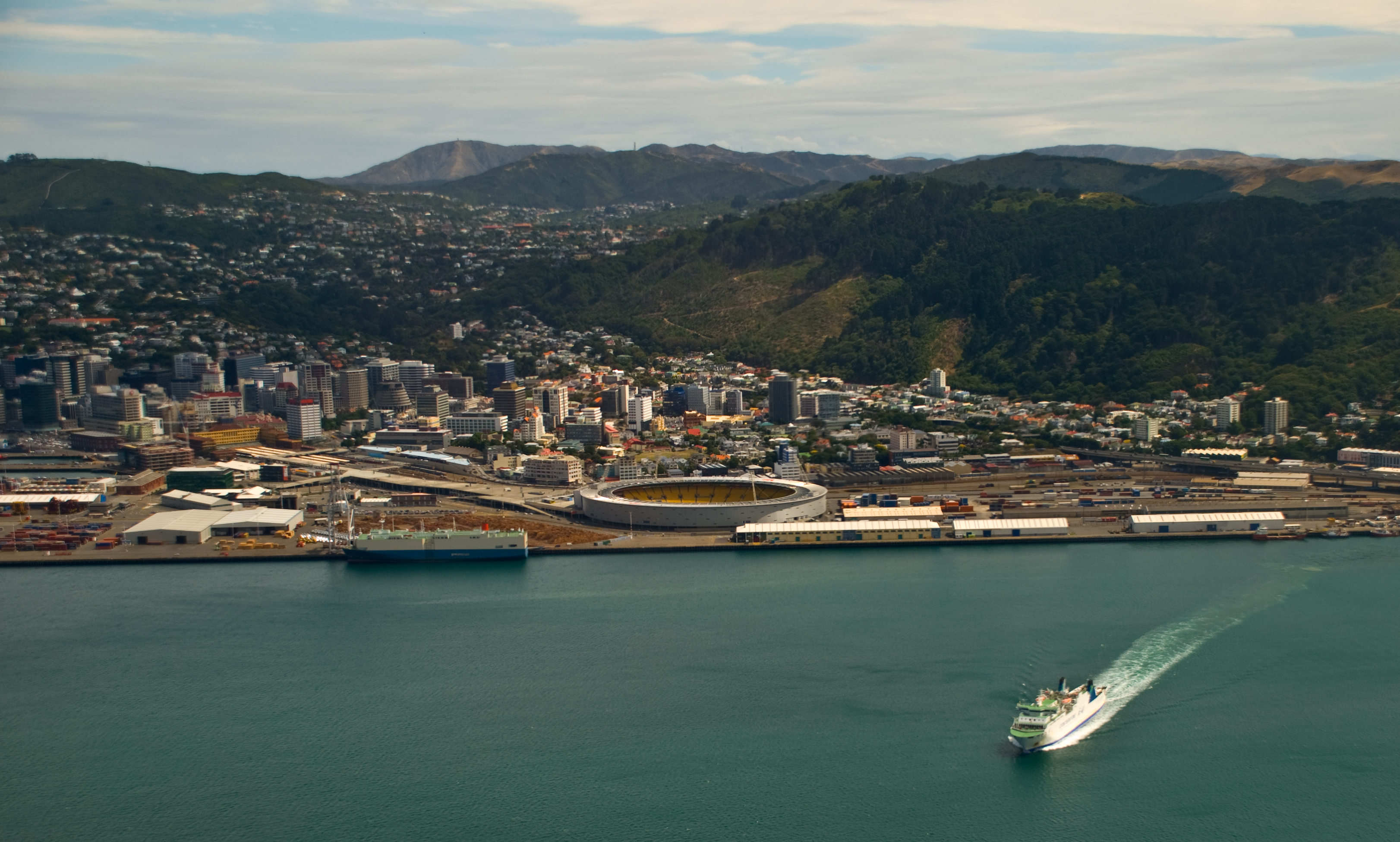 ThorndonAotea Quay and the Stadium, Wellington, New Zealand, 23 Feb 2008Arriving from Auckland in an Air NZ 737